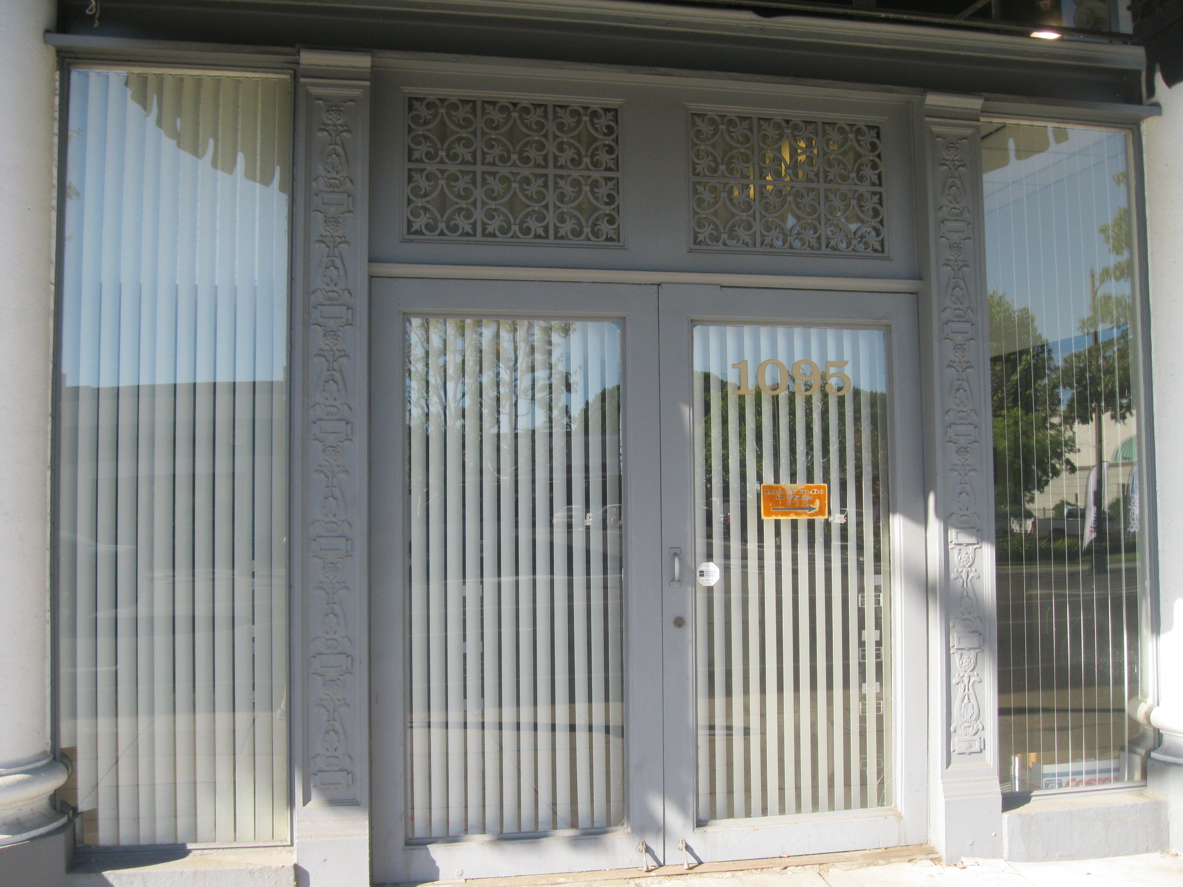 Kindel Building in Pasadena, California